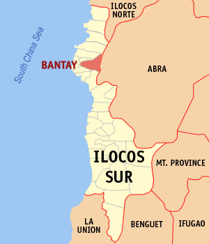 Map of Ilocos Sur showing the location of Bantay